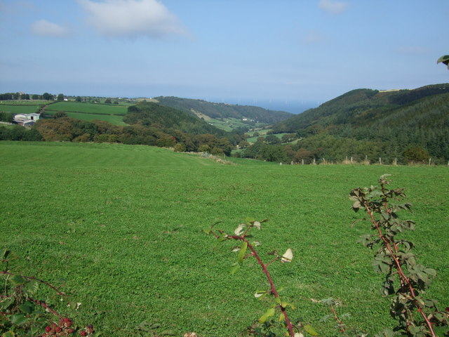 Field above Nant - y - Groes valley Viewed from B5113 towards North Wales Coast. The new wind farm which is under construction is just visible out to sea.